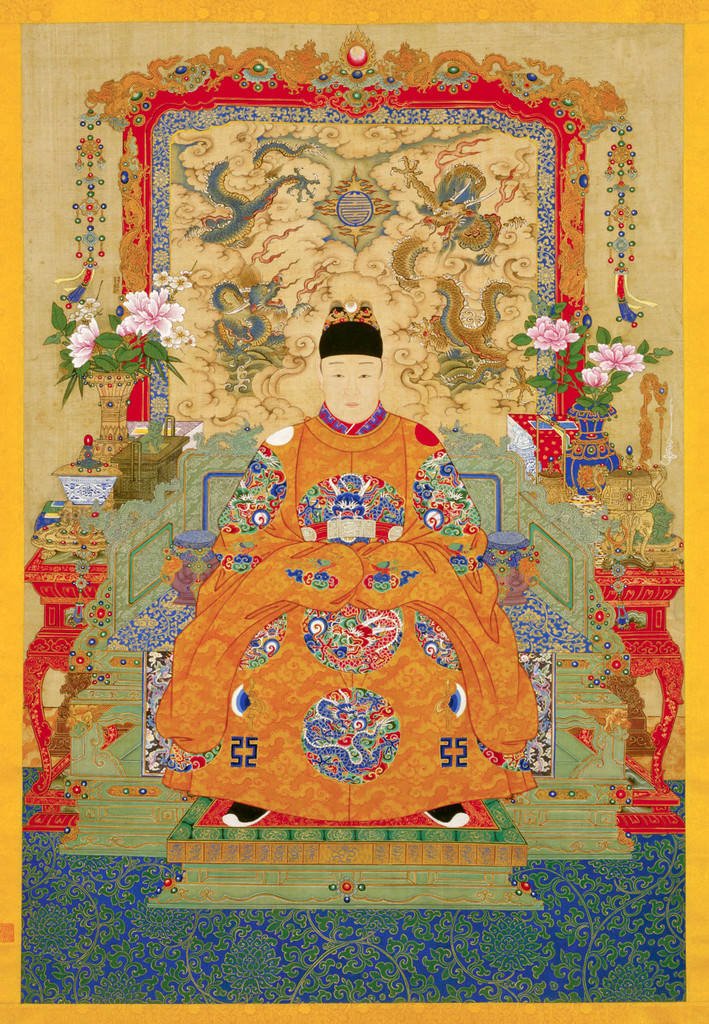 Portrait of the Tianqi emperor in court costume. This hanging silk scroll pictures Zhu Youjiao, the Tianqi emperor, sitting on an elaborate dragon chair. On a table nearby sit vases of pink peonies, symbolizing prosperity. During his reign, however, the economy 8declined and the government showed signs of collapsing from inner pressures and uprisings. Seventeen years after Youjiao’s death, the 8276-year-long dynasty was overthrown by Manchus from the northeast, marking the end of Ming rule.